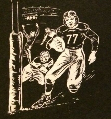 fenwickp